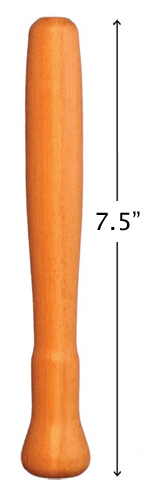 A muddler, displayed vertically, with size legend 7.5""